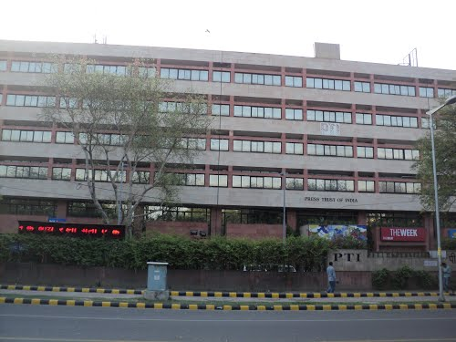 PTI office in New Delhi. Located at 4, Parliament Street, this building serves as the editorial headquarters of the organisation.